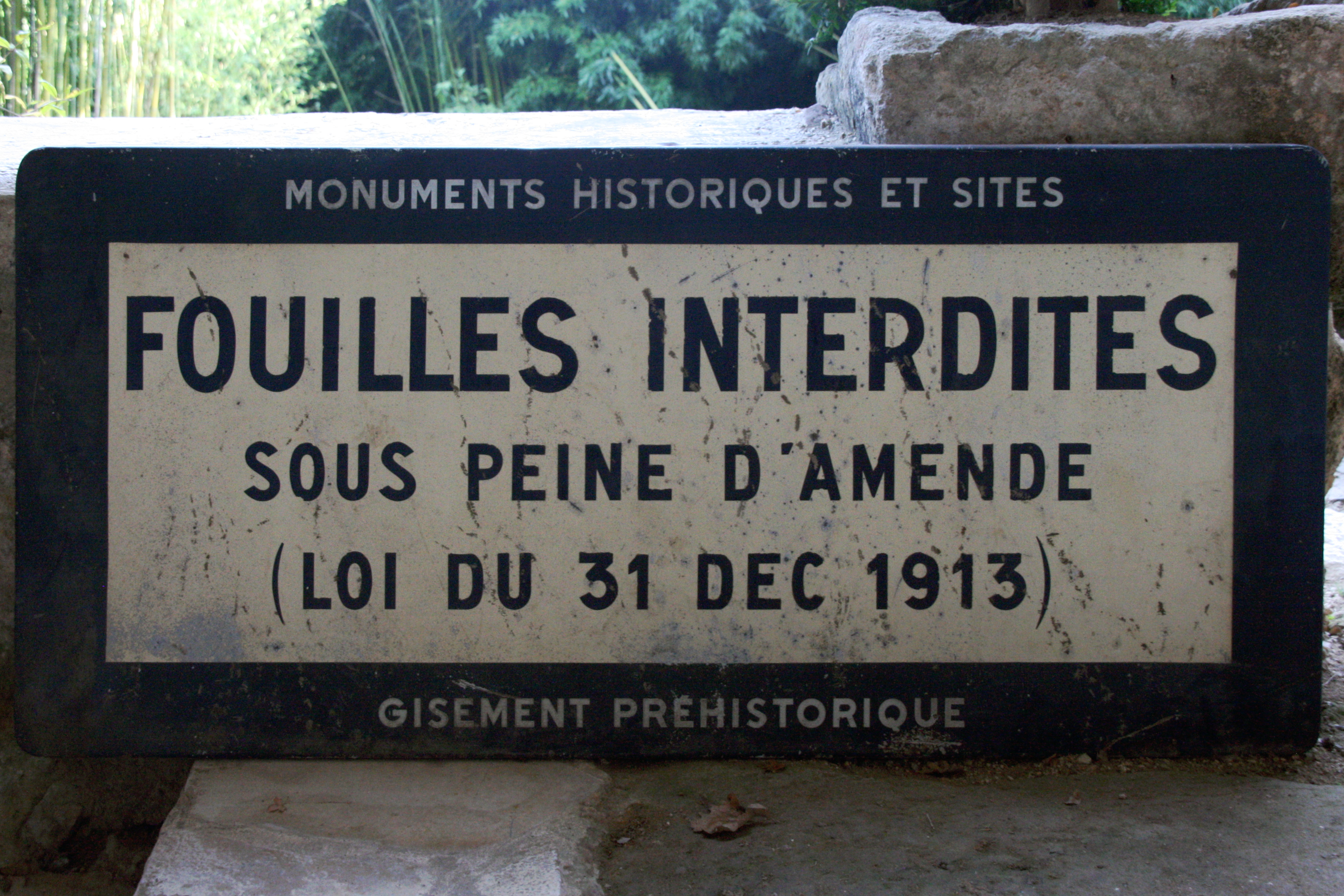 Prohibition sign "Forbidden excavations" in the Roc de Saint-Cirq prehistoric cave, Saint-Cirq, Dordogne, Aquitaine, France.